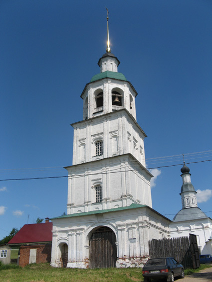 Belltower of Kolocky Monastery near Mozhajsk, Russia